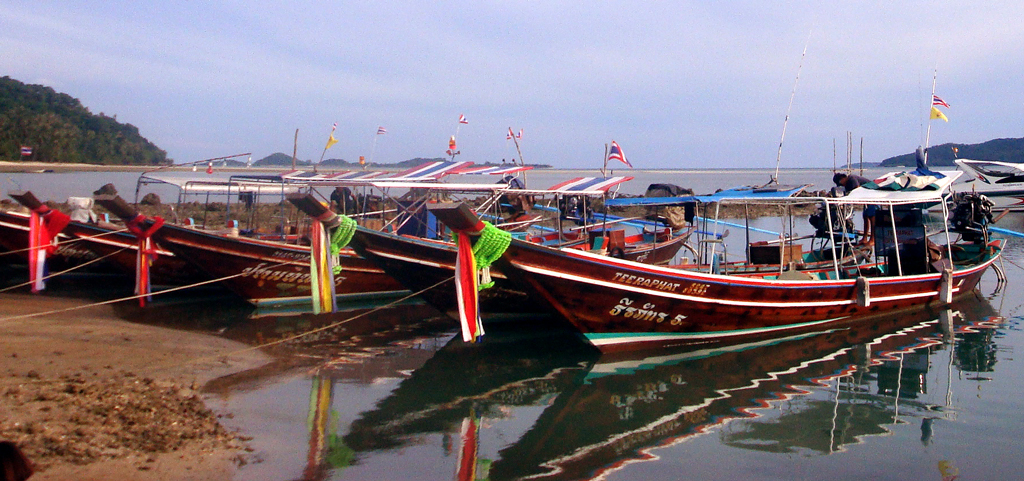 Long-tail boats decorated with bright cloth and flower garlands to keep spirits of the sea happy, and ensure a safe journey. (Koh Samui)